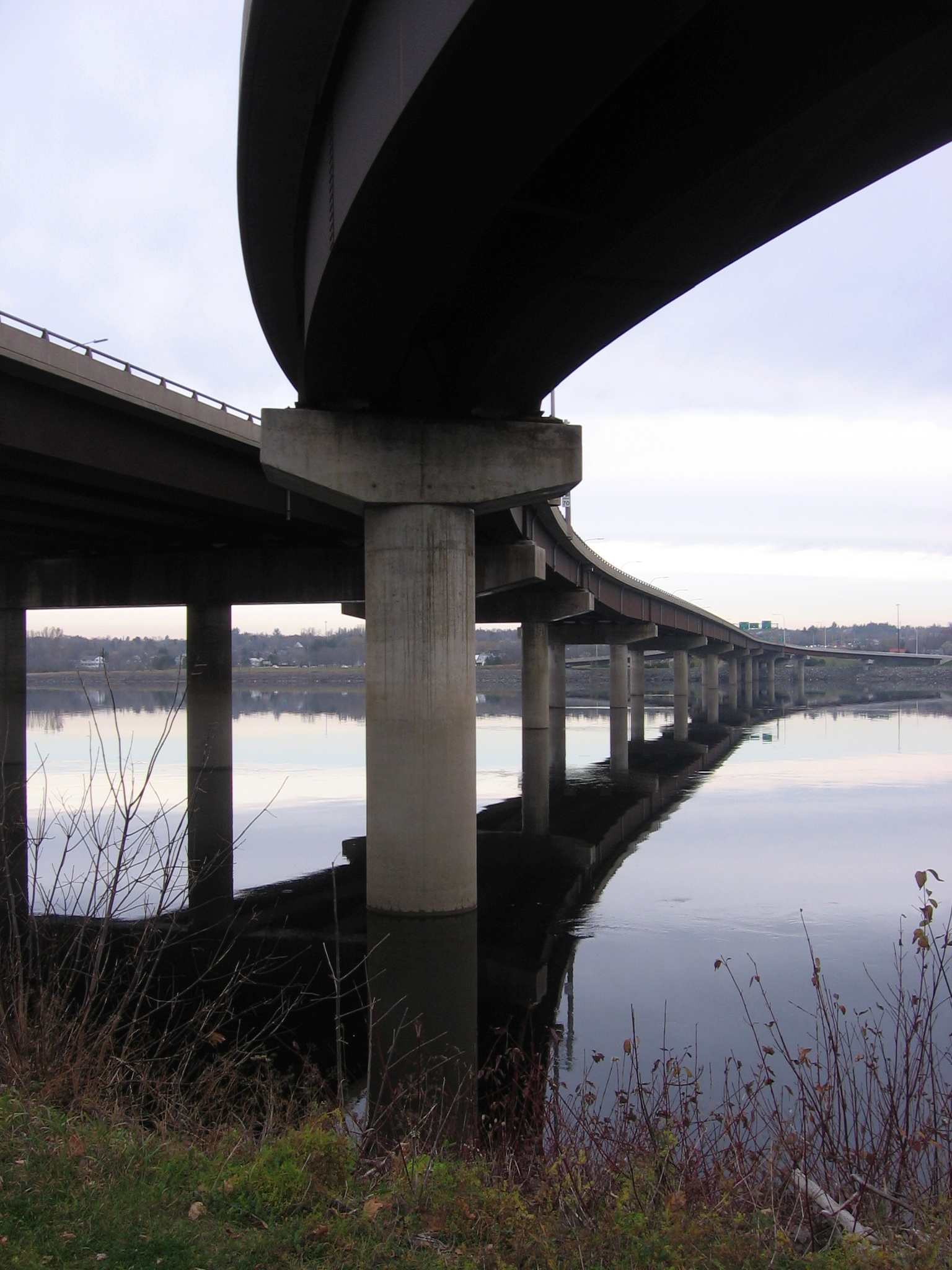 View of the underside of Westmorland Street Bridge across the Saint John River, Fredericton, New Brunswick